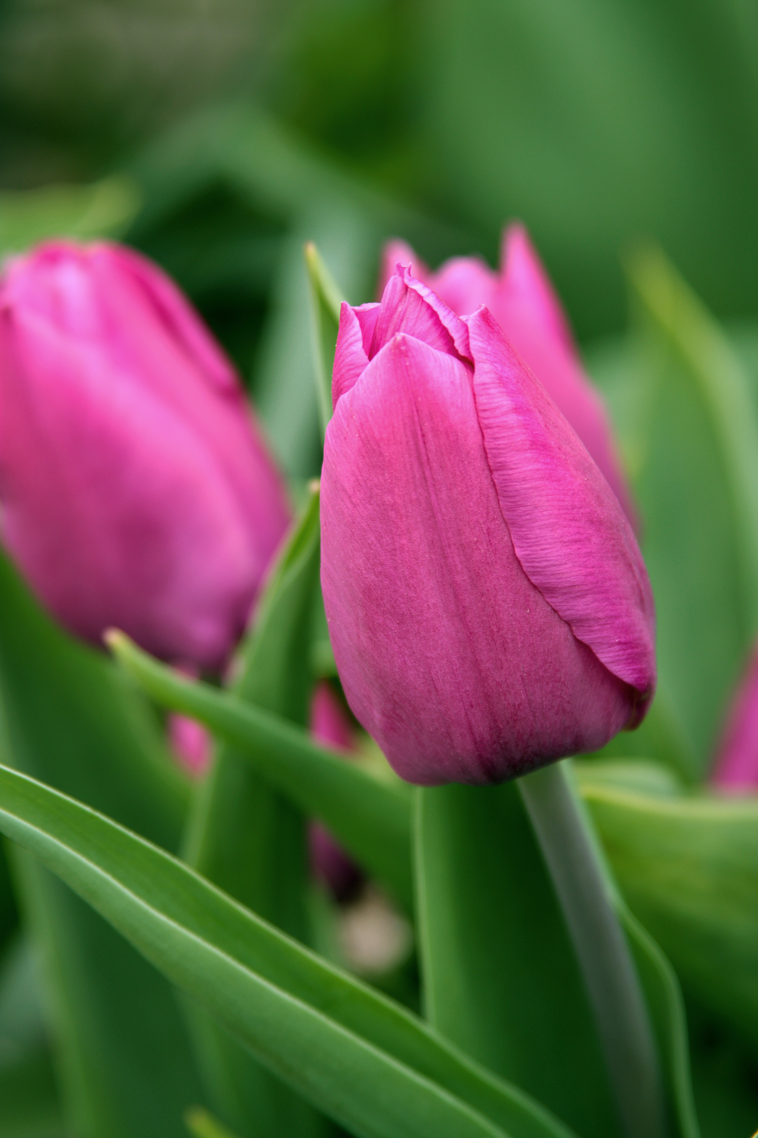 A pink tulip of the cultivar Tulipa 'Triumph' blooming in a neighbor's front yard garden. This particular color is known as 'Burns'.